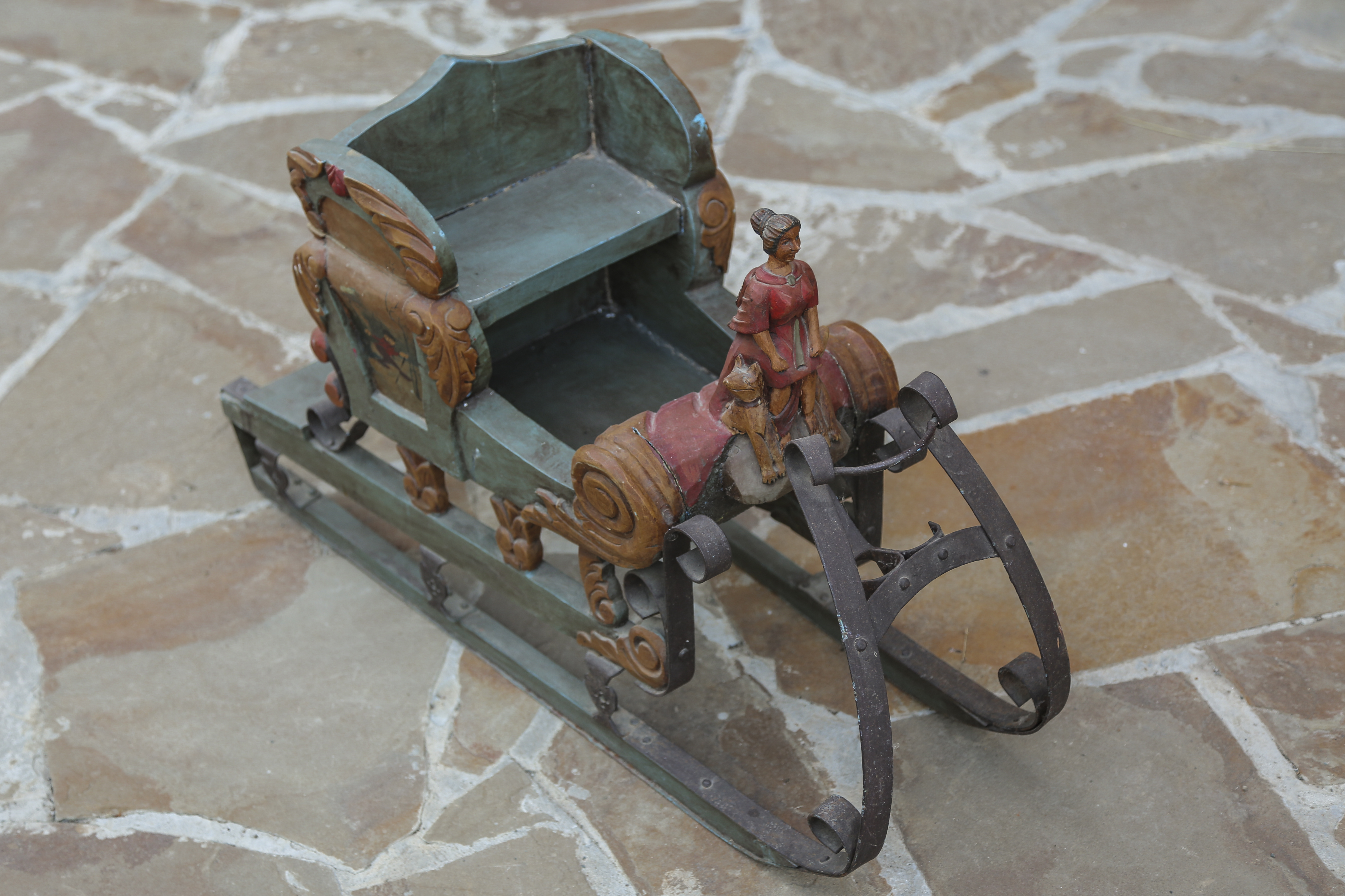 The child sledge (19th c.). Radomysl Castle, Ukraine